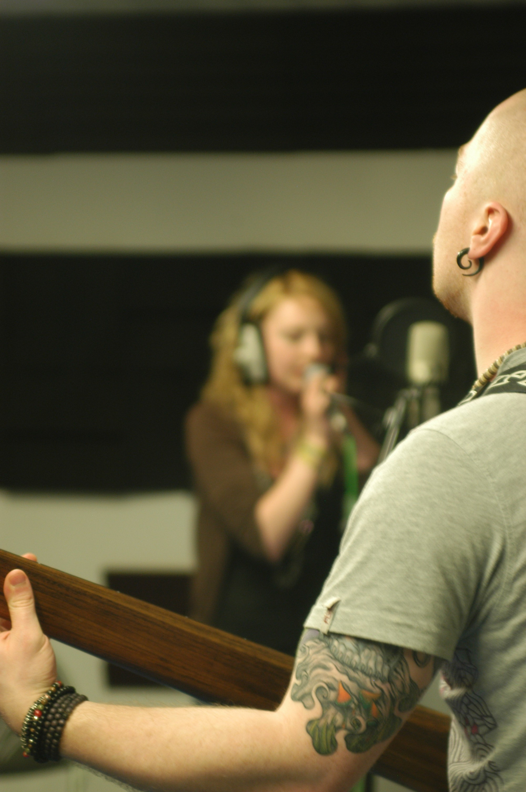 Shot of singer and bassist in recording studio